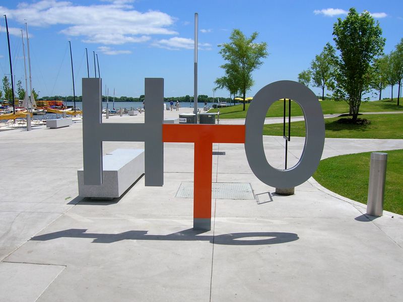 HTO Park sign in Toronto, Canada.